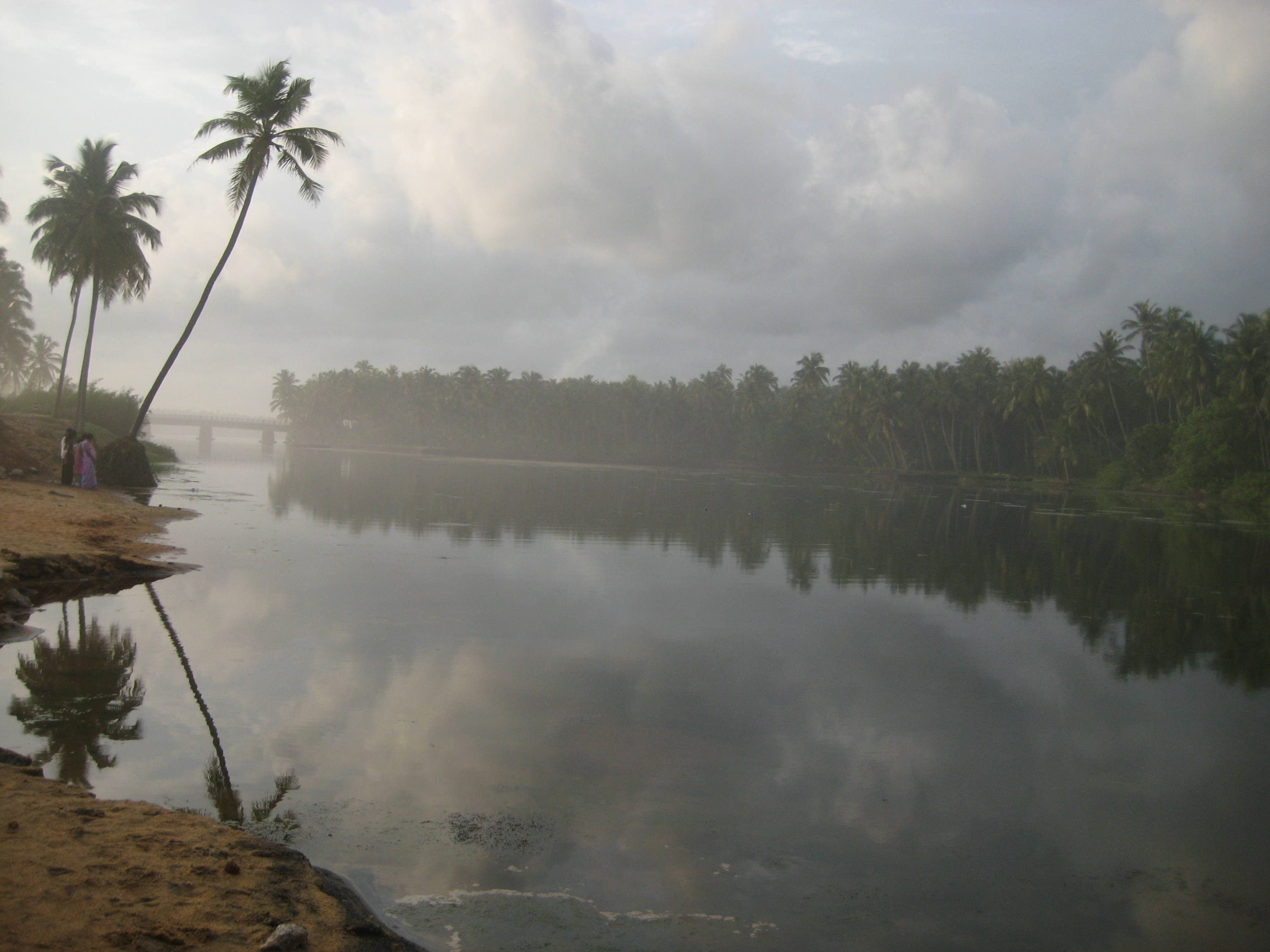 Meeting point of lake and sea, taken from Paravur beach